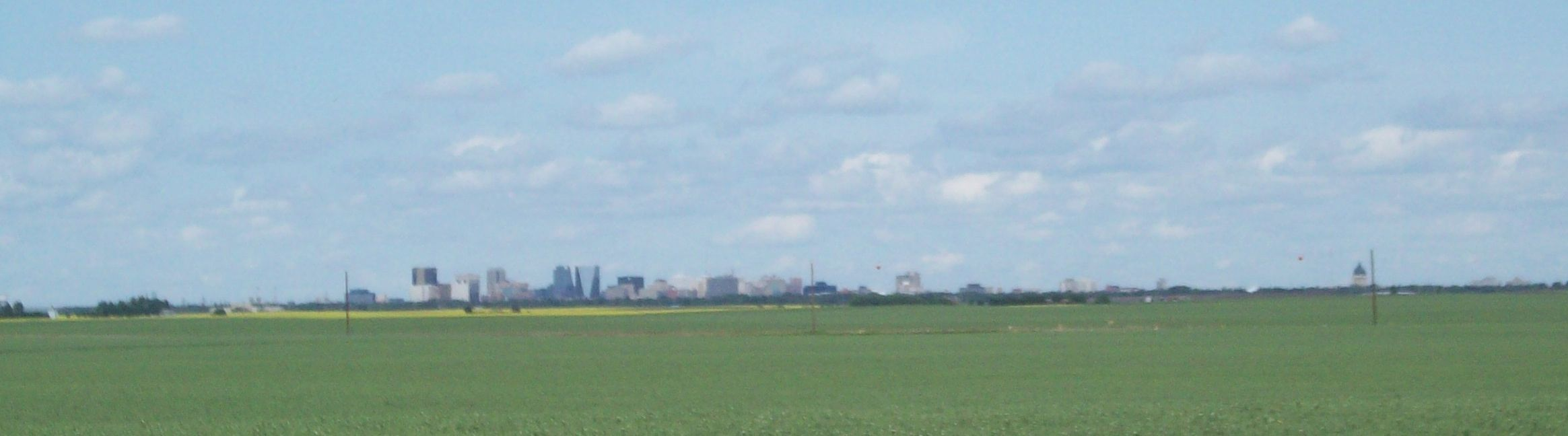 Regina from Trans-Canada Highway west of the city